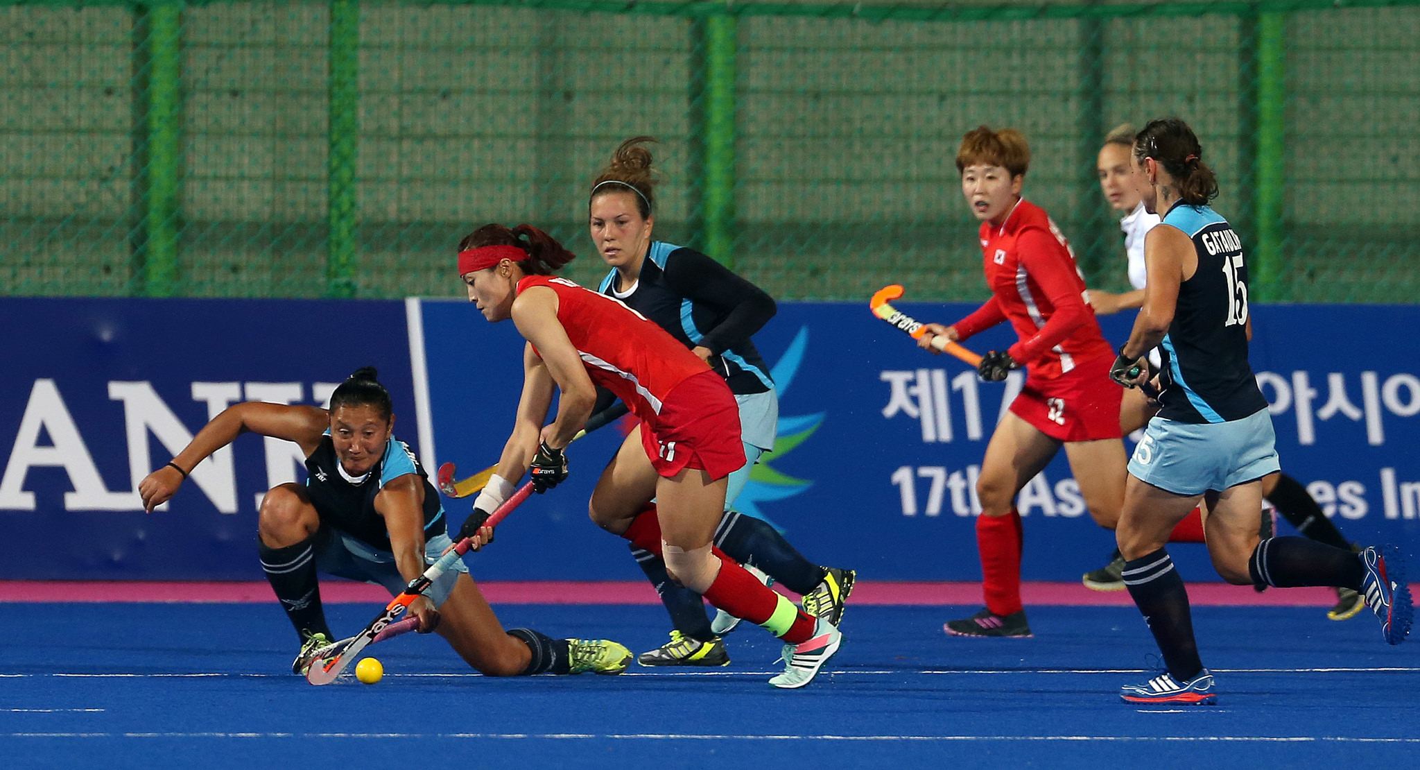 Hockey, 2014 Asian Games